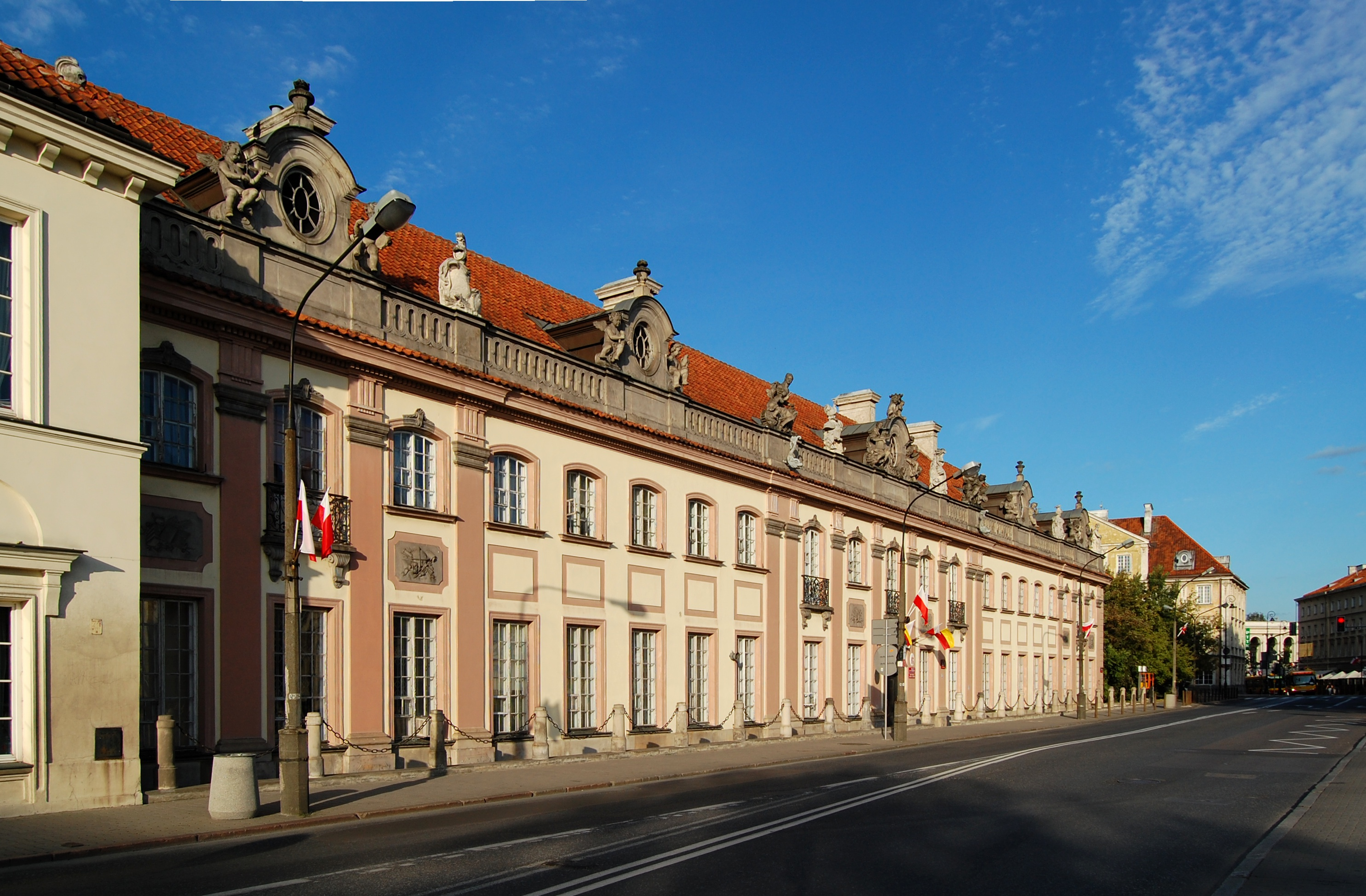 Branickich Palace, Warsaw, Poland.